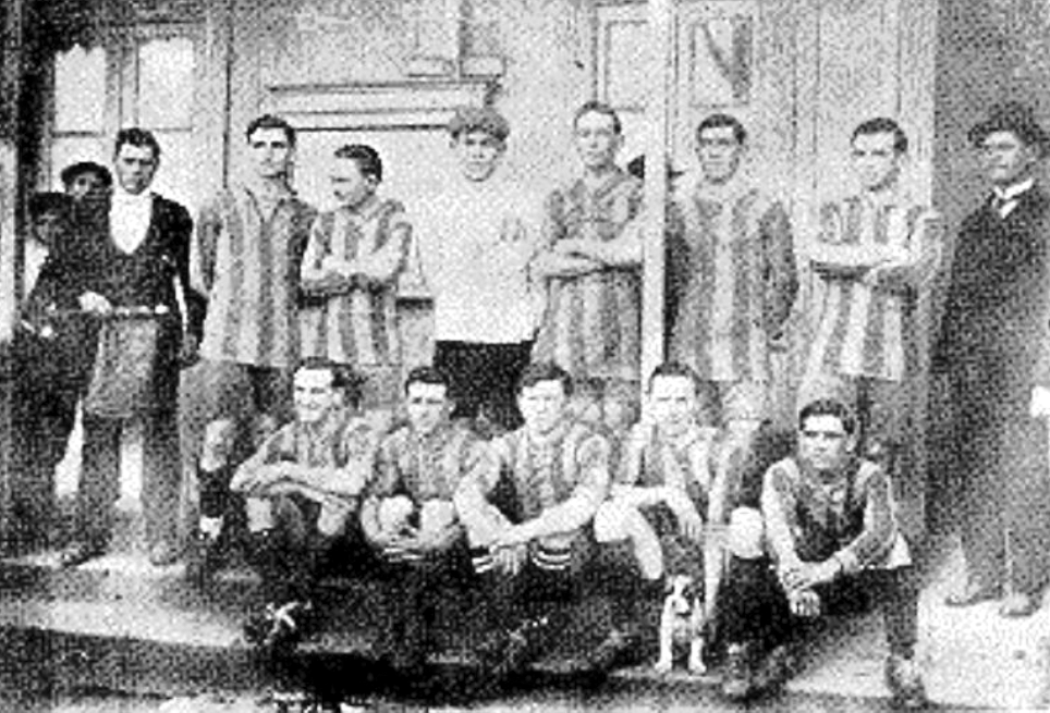 Rosario Central football team of 1919. Up: Patricio Furlong, Patricio Clarke, Octavio Díaz, Rodolfo Mulhall, Jacinto Perazzo, Florencio Sarasíbar; down: Antonio Blanco, Ernesto Guaraglia, Harry Hayes, Ennis Hayes, Antonio Miguel